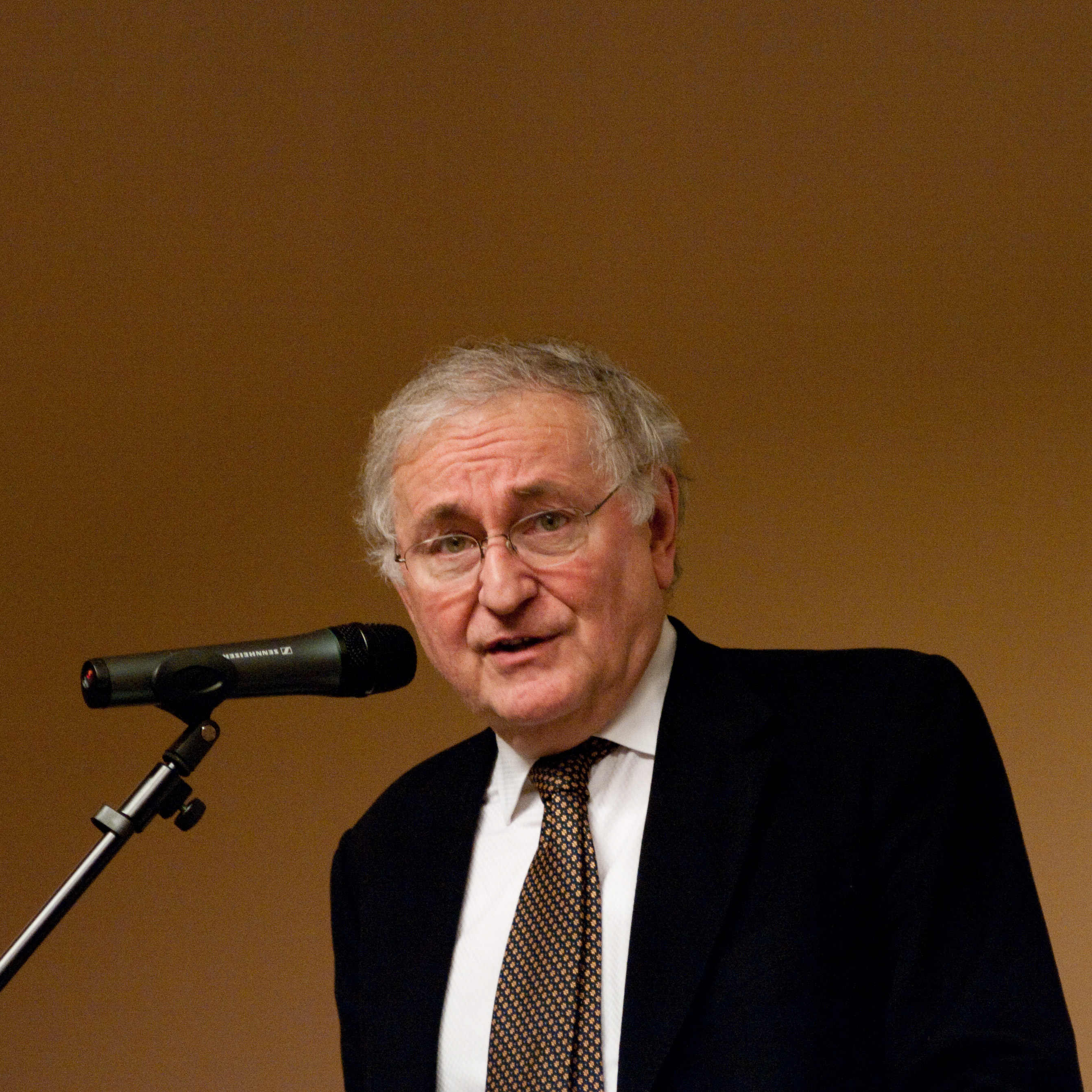 Jacques Cheminade during a lecture in Paris, 22nd of october 2009.